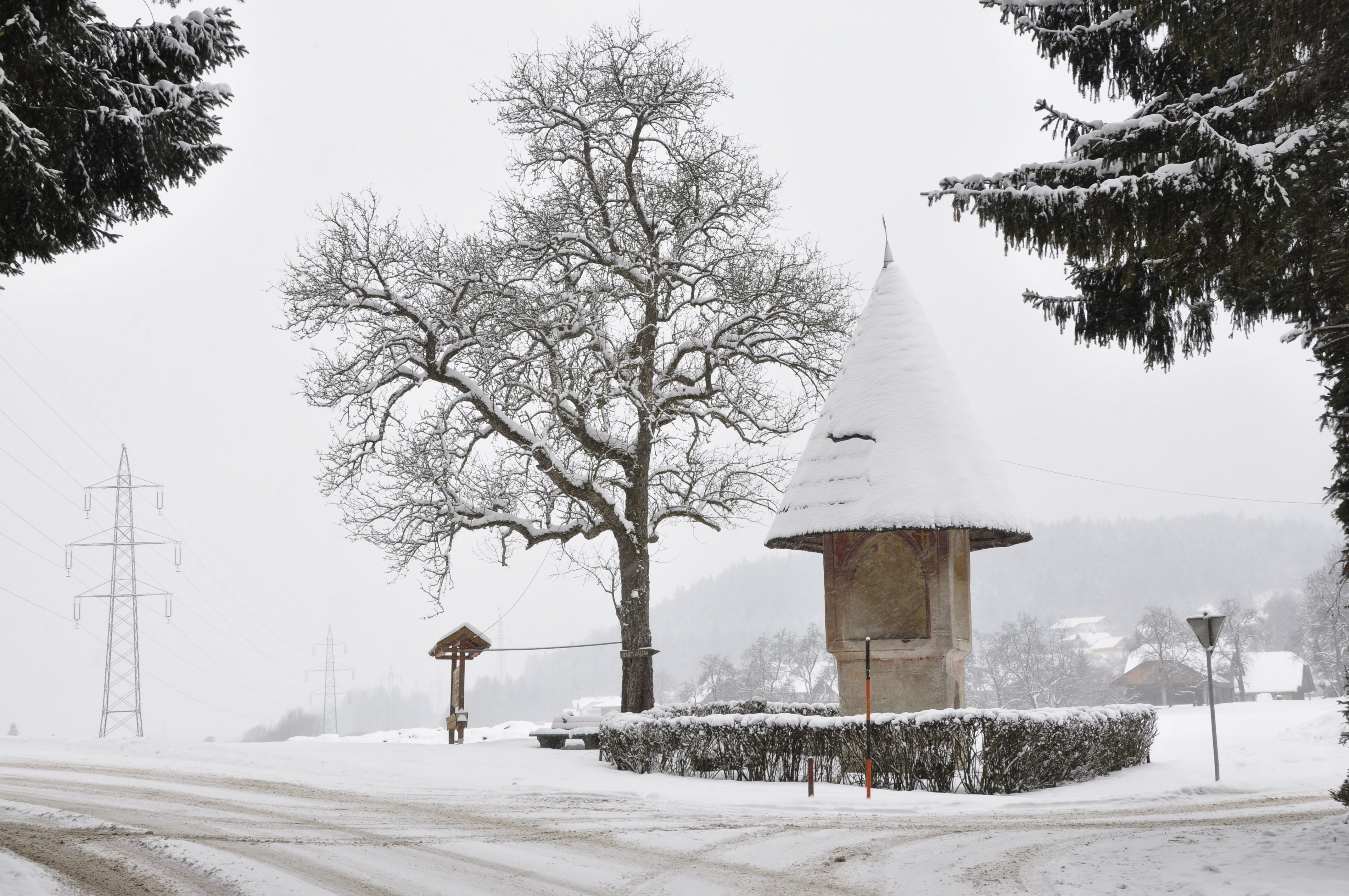 Tschachonig Cross in Arndorf, municipality Techelsberg, district Klagenfurt Land, Carinthia, Austria, EU